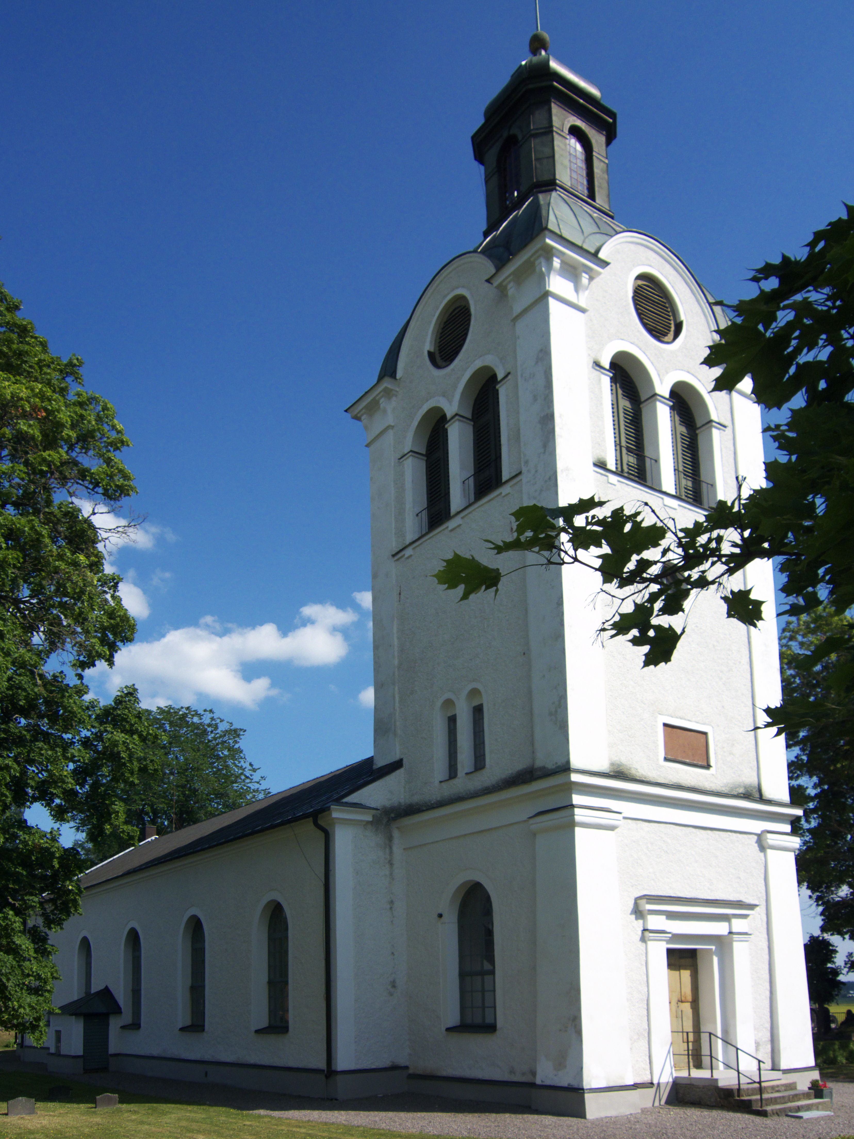 Bred church